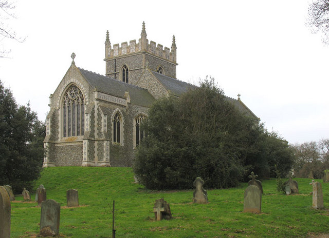 St Withburga, Holkham, Norfolk